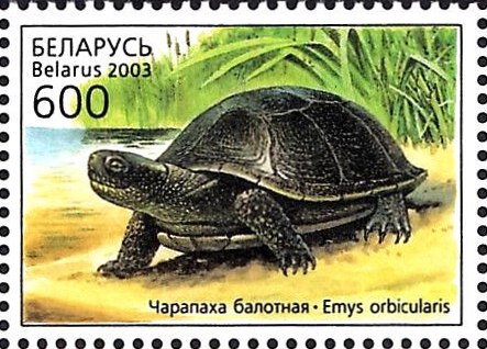 Stamp of Belarus